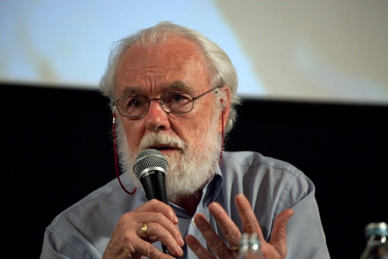 David Harvey speaking on Subversive Festival 2013 in Zagreb.